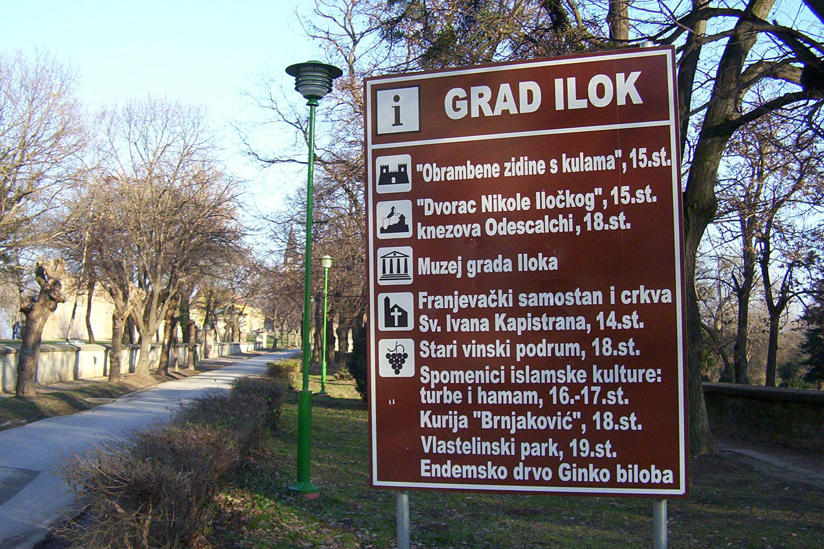 Entrance on Ilok fortress, sign in Croatian.